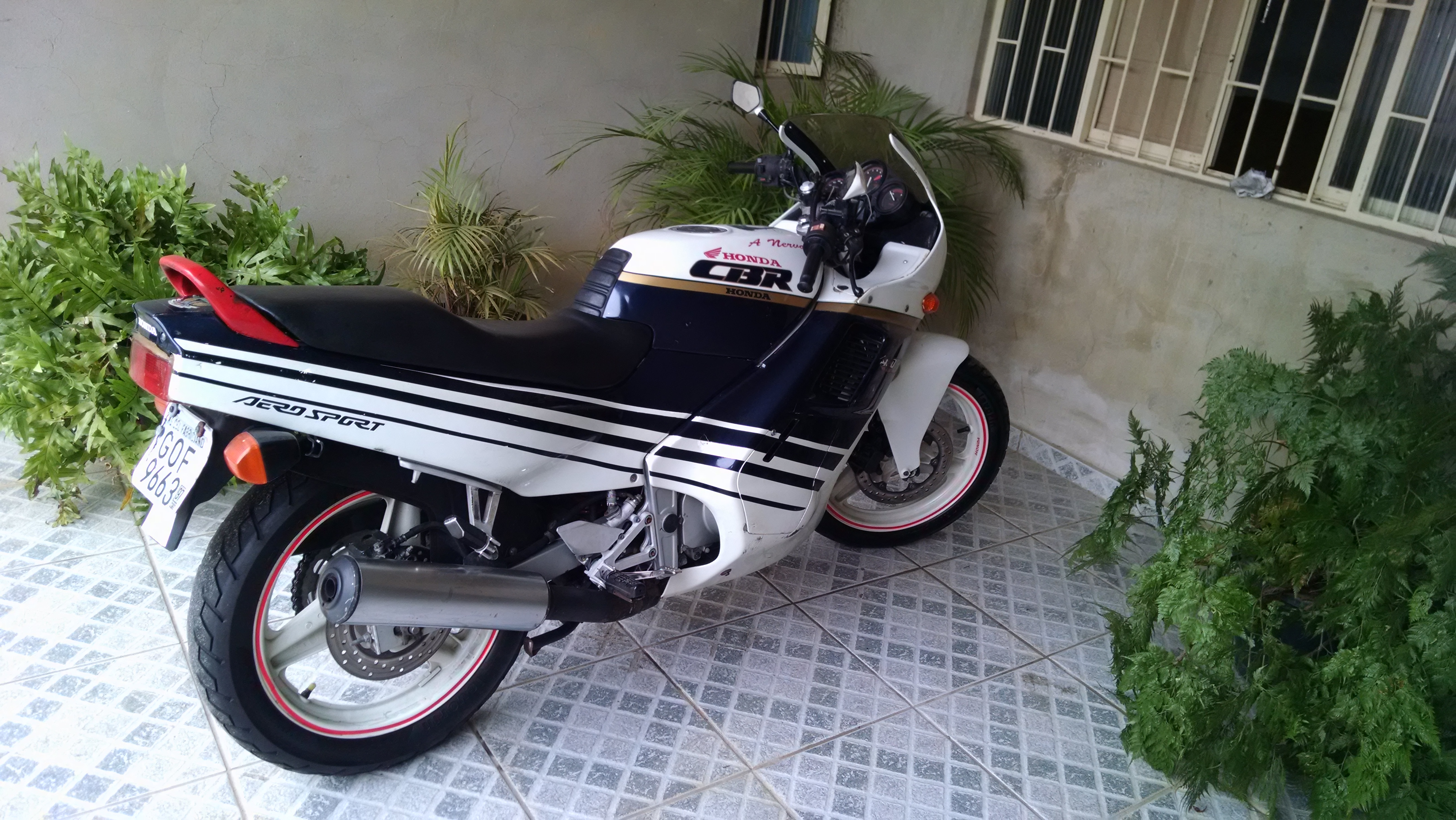 CBR 450 SR - 1990